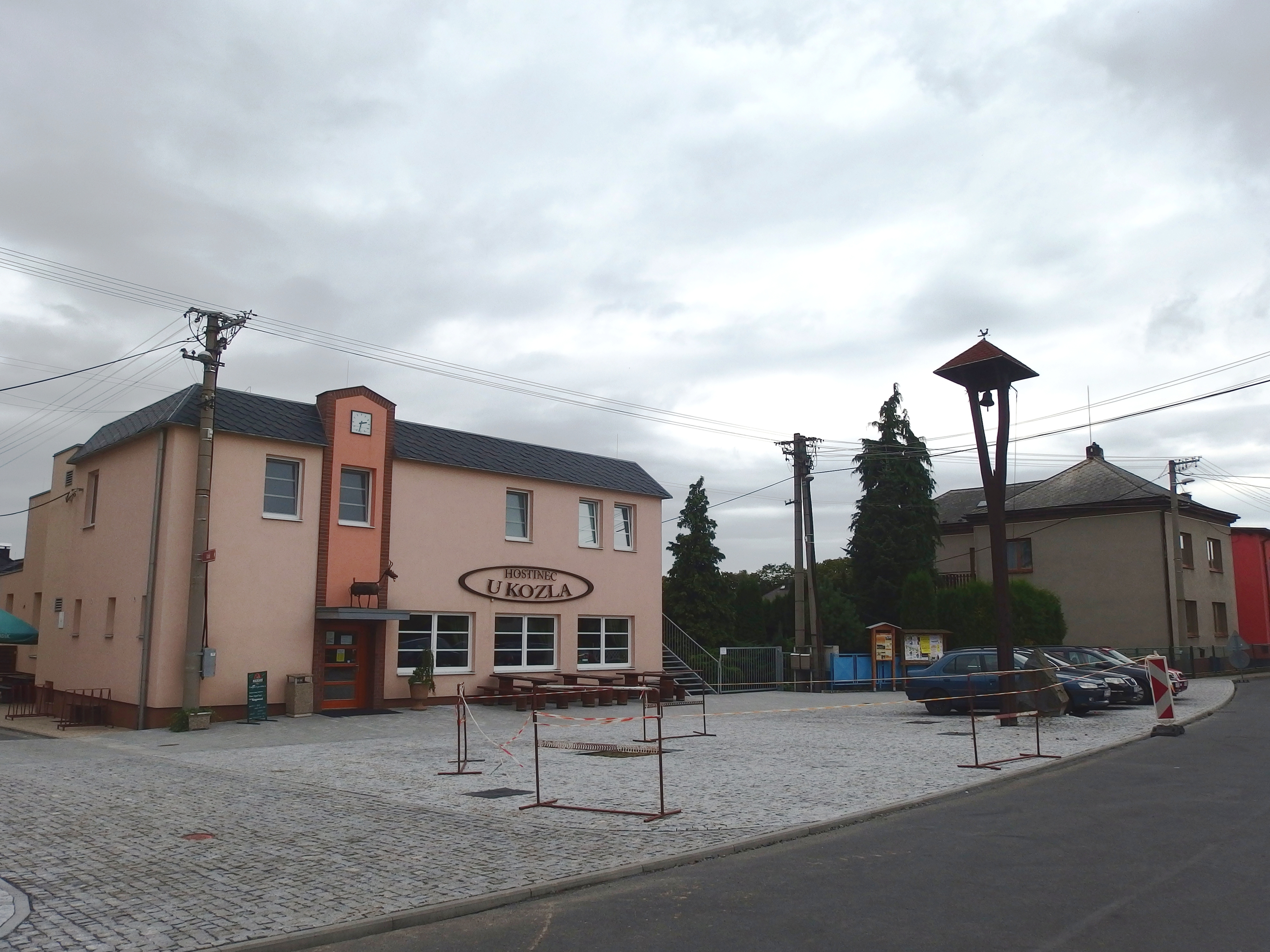 Bolatice, Opava District, Czech Republic, part Borová.